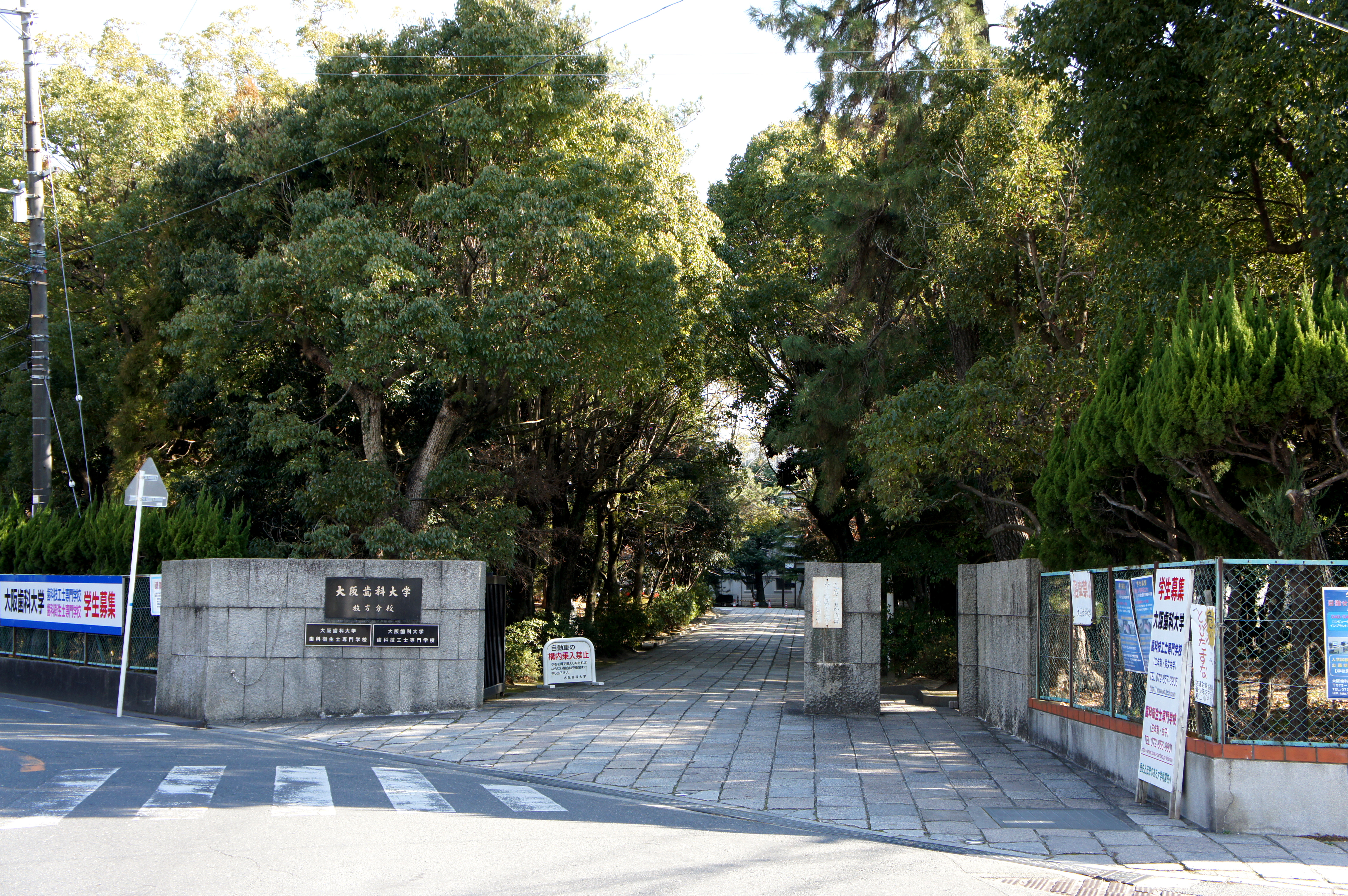 Osaka Dental University Makino Campus, 1-4-4 Makinohonmachi Hirakata-City Osaka JAPAN.